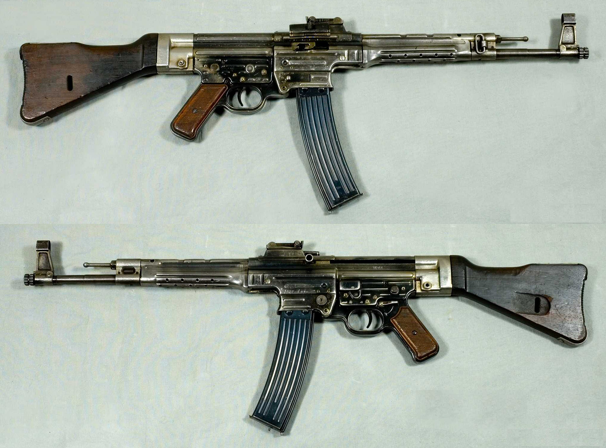 MP44 (Sturmgewehr 44), Germany. Caliber 8x33mm Kurz- From the collections of Armémuseum (Swedish Army Museum), Stockholm.